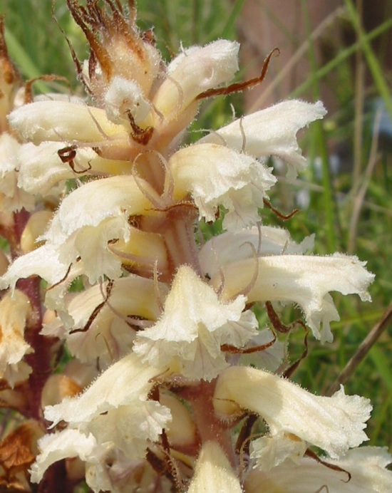 Orobanche amethystea